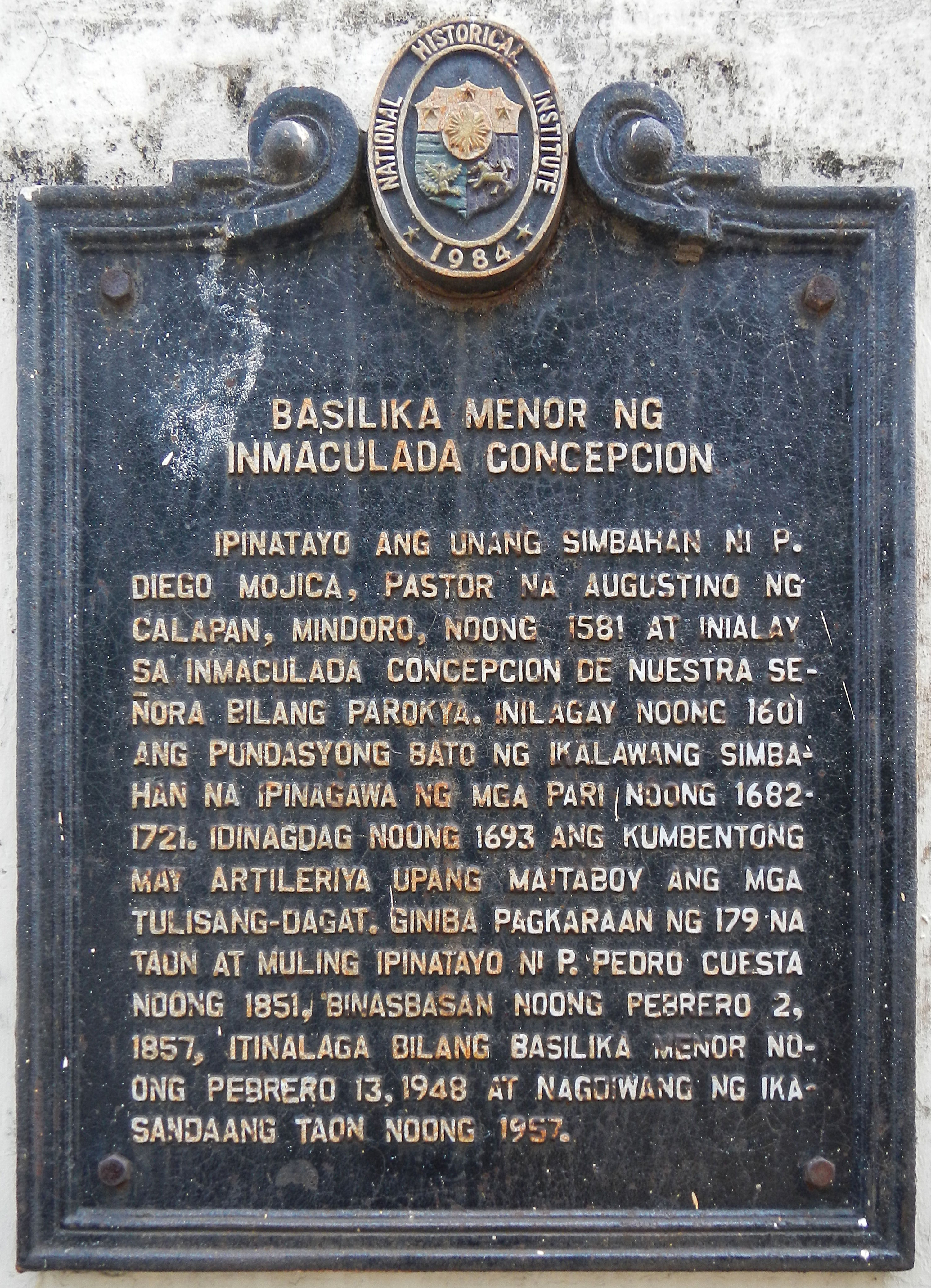 Historical marker installed by the National Historical Institute (now the National Historical Commission of the Philippines) for the Batangas Basilica.